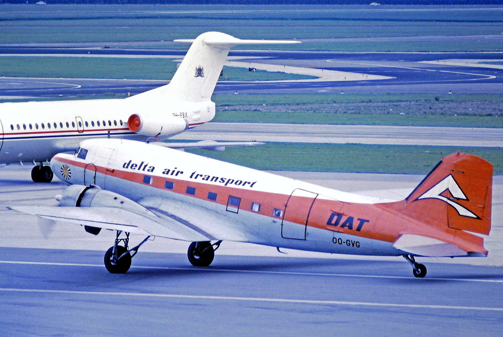 Douglas DC-3C OO-GVG of Delta Air Transport at Amsterdam Schiphol airport in 1972